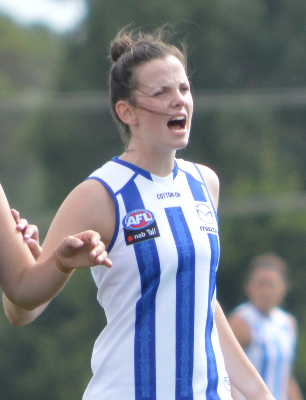 Jasmine Grierson with North Melbourne during an AFLW practice match against Melbourne at Casey Fields in January 2019.